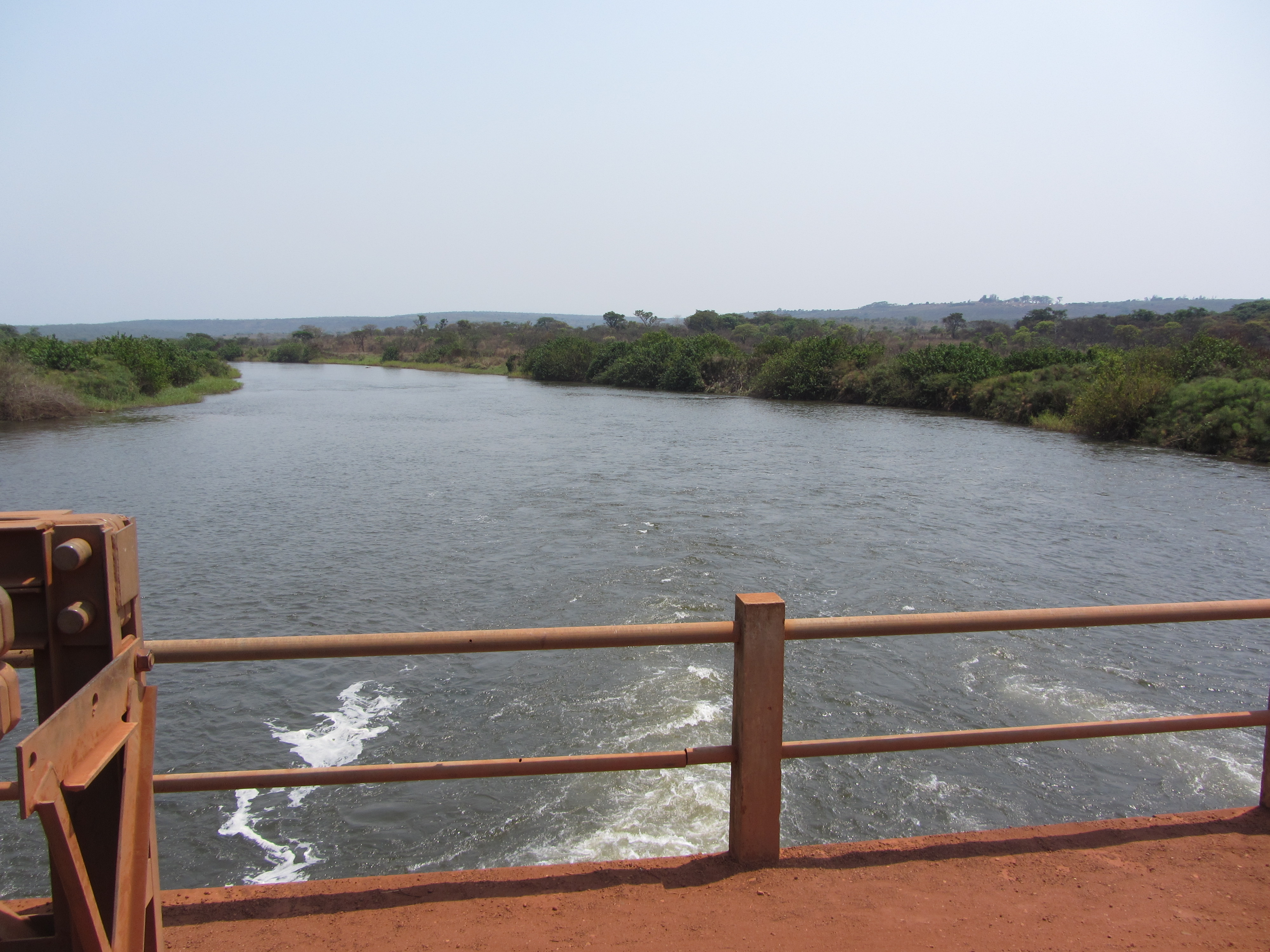 Lucala River near Kalandula, below the Kalandula Falls (Malanje Province, Angola), seen from bridge of national road N140 between Luije and Kalandula